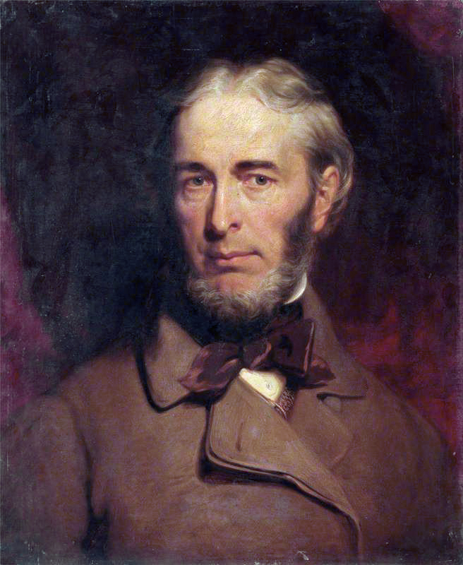 Self portrait oil on canvas 61.4 x 51 cm